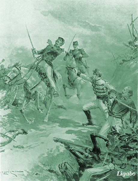 July 20, 1860. Episode of the Battle of Milazzo in which Garibaldi is saved by the prompt intervention of Giuseppe Missori who managed to neutralize two troopers Bourbon, making fire with a repetition of modern revolvers donated to the Thousand by Samuel Colt.